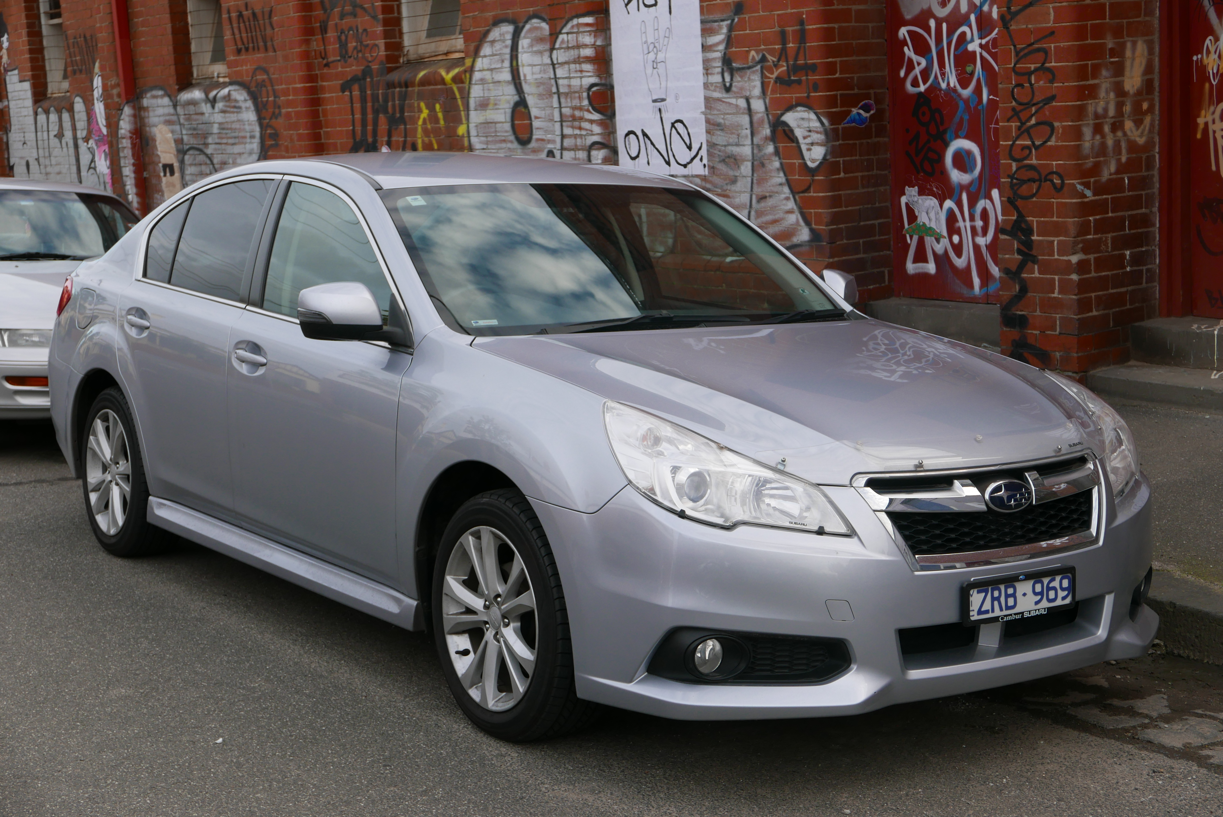 2013 Subaru Liberty (MY13) 2.5i sedan. Photographed in Collingwood, Victoria, Australia. Vehicle registration enquiry resultsJurisdictionVictoriaRegistrationZRB969Chassis codeJF1BMMKC2DG019292Engine codeR449861Compliance date2013-04Year of manufacture2013